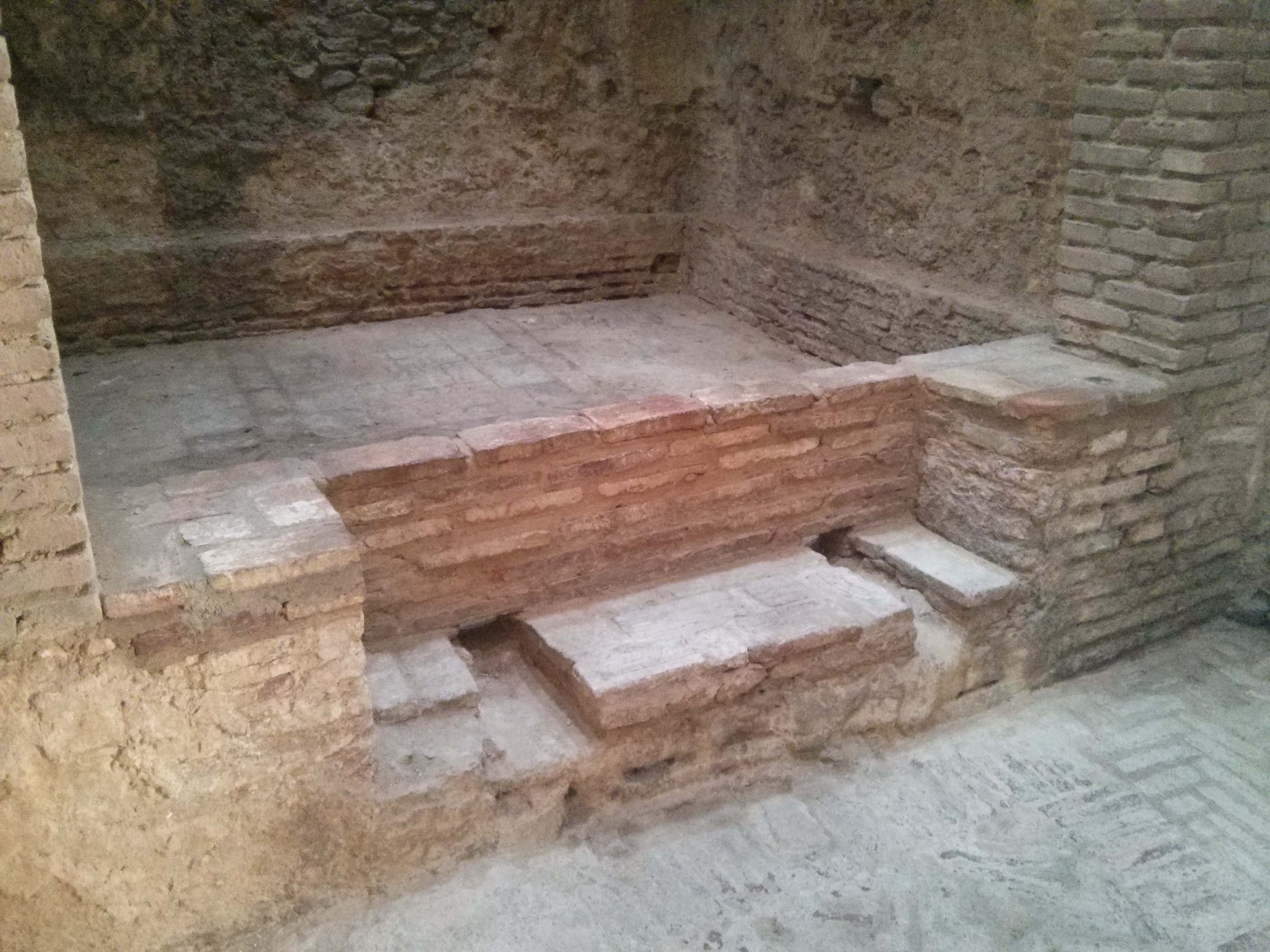 Pool of the cold room. The Arab baths of Ronda